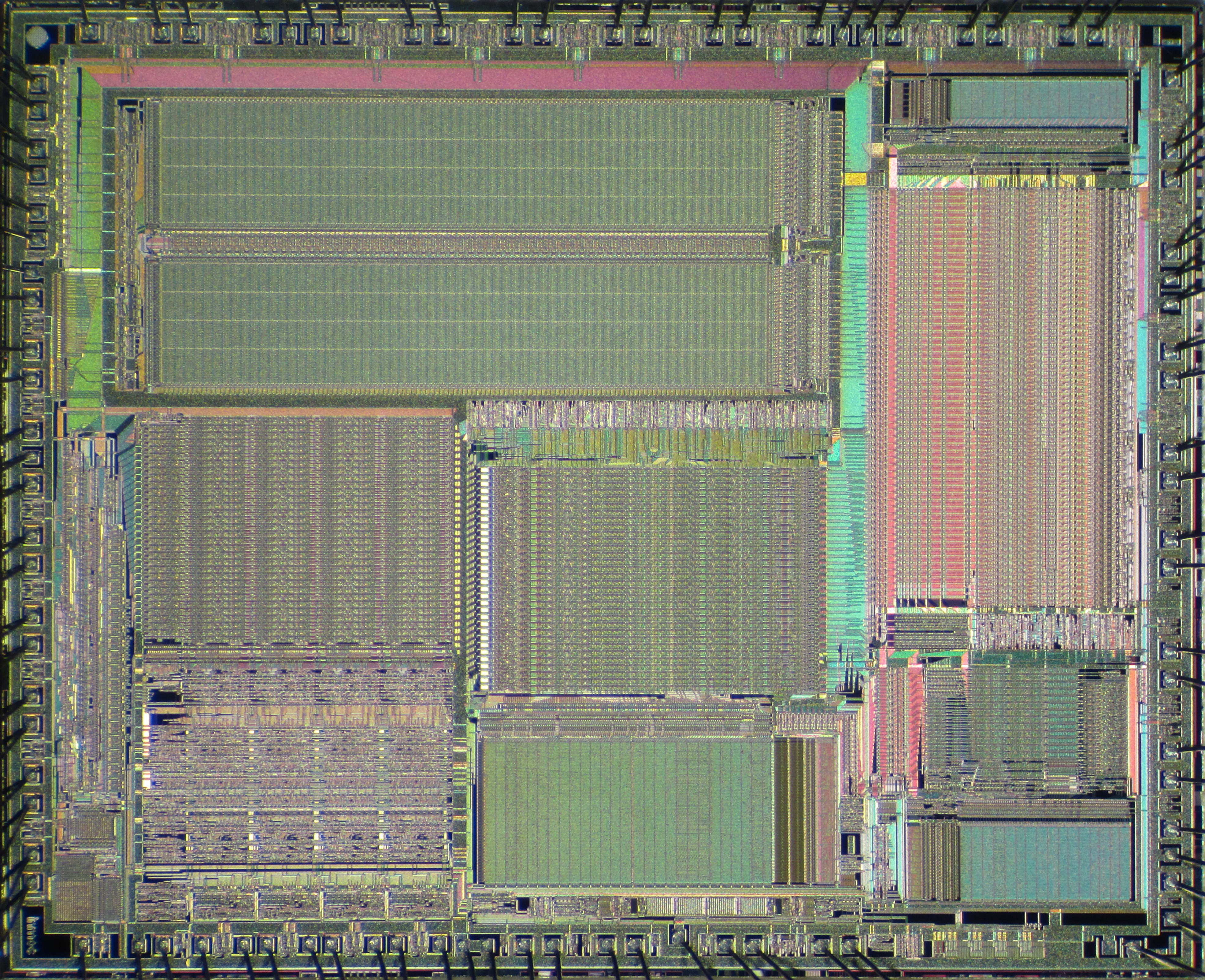 Die shot of Inmos T805 transputer (IMST805-G30S).